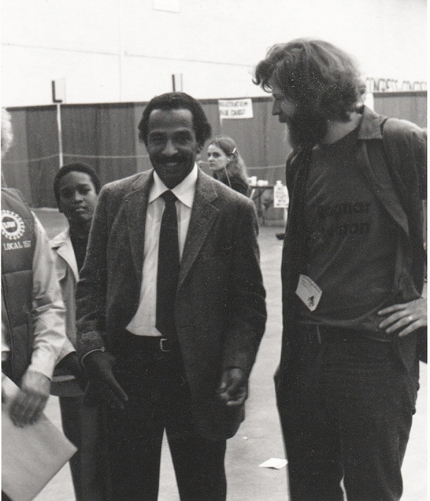 photo of Rep. John Conyers, All People's Congress, Detroit MI, USA 1981